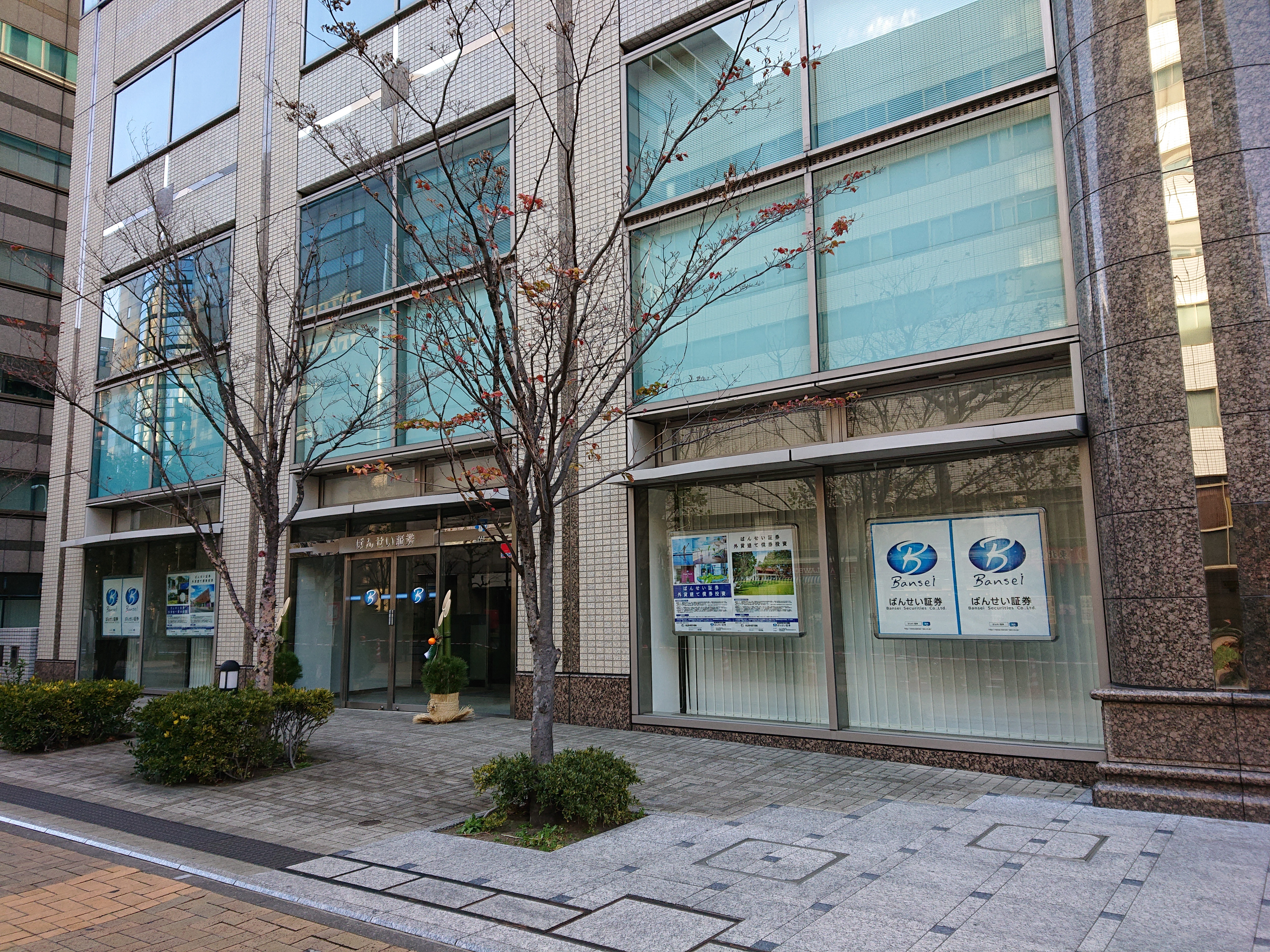 Kayabacho Tower (茅場町タワー), located at 1-21-1 Shinkawa, Chuo, Tokyo, Japan